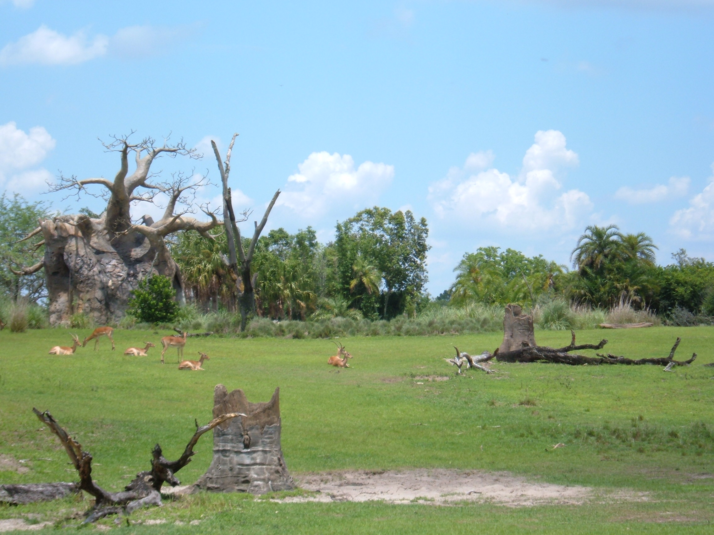 On Kilimanjaro Safaris in the Africa section of Disney's Animal Kingdom at the Walt Disney World Resort near Orlando, Florida.